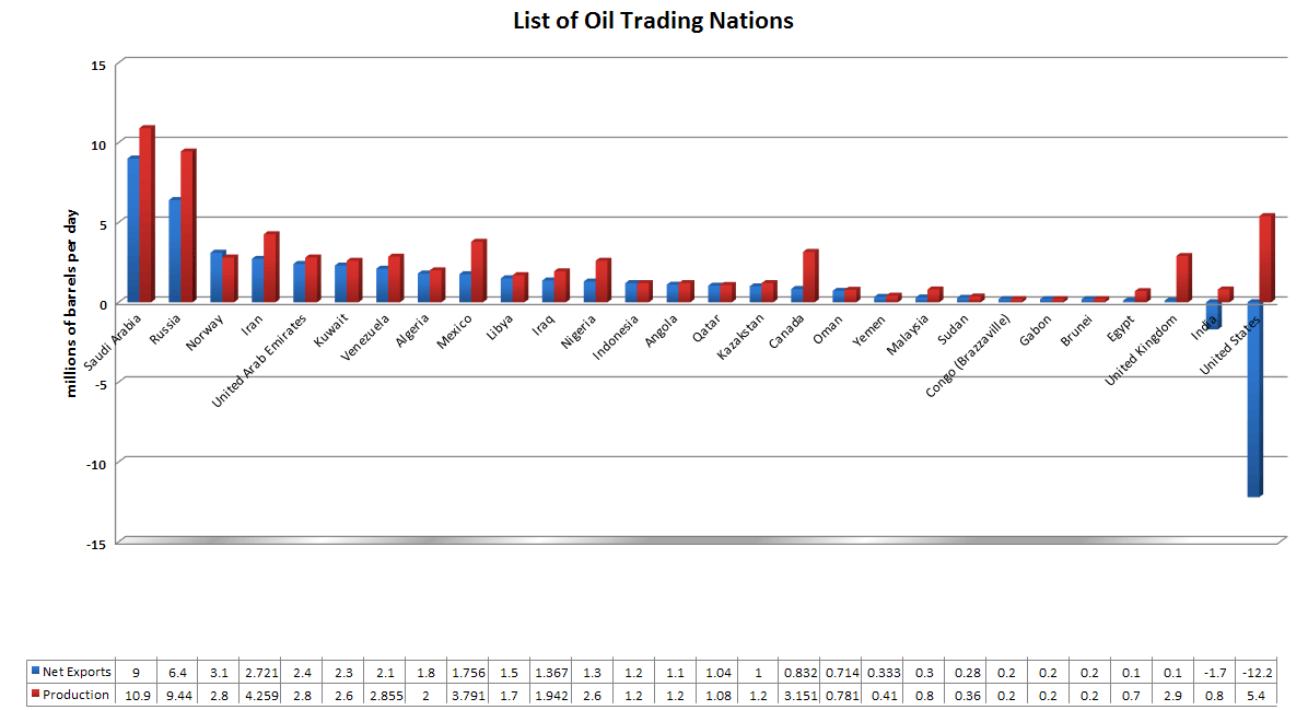 Chart from data taken from Note: There has been a mistake in the Norwegian data taken into this diagram, as it shows Norway exporting more oil than it produced. China is conspicuously missing, and all the information is badly outdated (2006). Update needed!